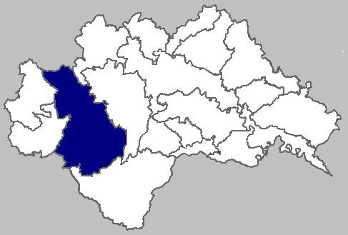 Image of Glina municipality, position of city inside Sisak-Moslavina County